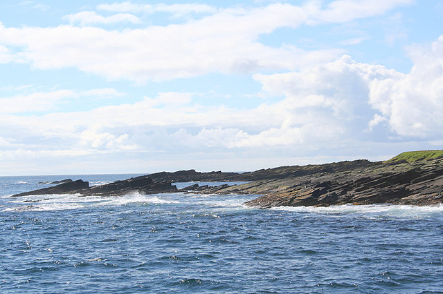 Rochy coast of Auskerry, Orkneyx, Scottland